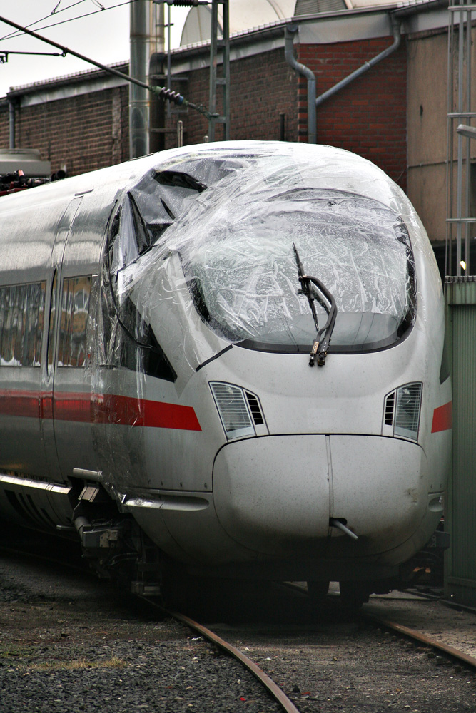 The front car 4011 592-5 of the ICE T trainset 1192. This car has been hit by an overthrown tree and was severely damaged.